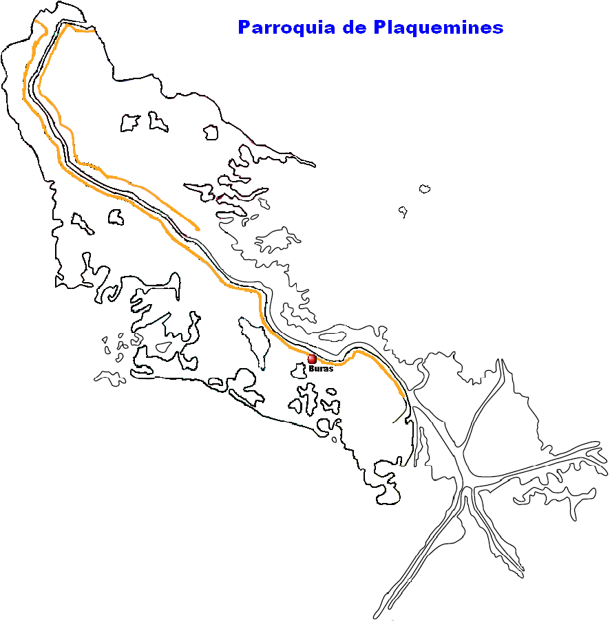 Buras Map Locator